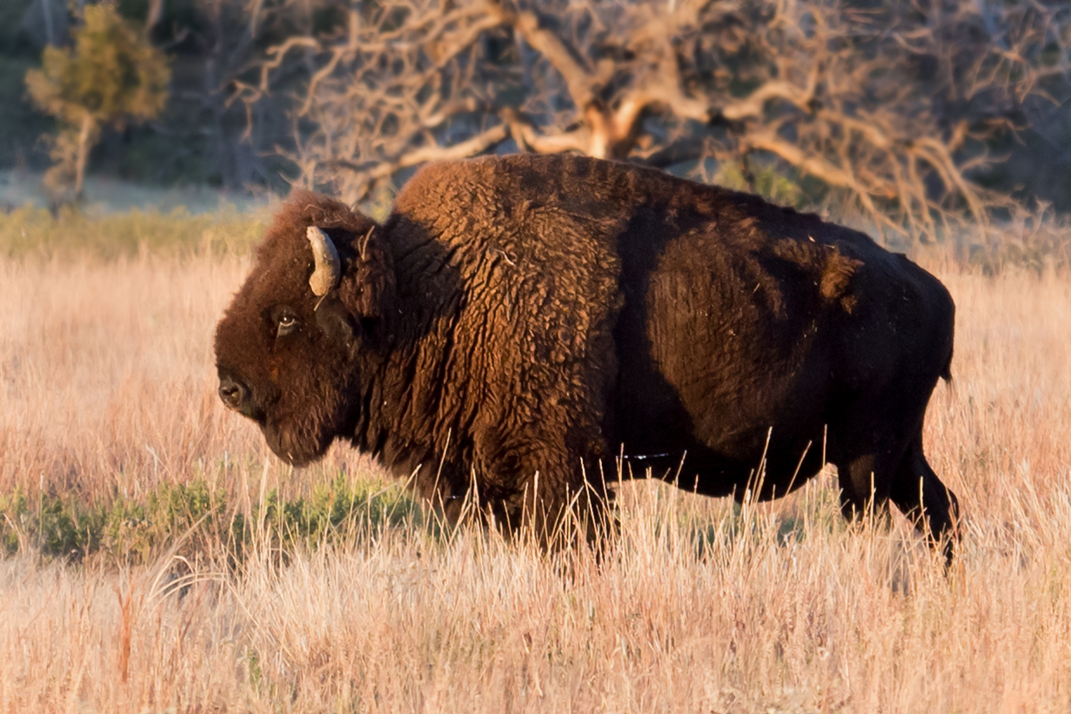 Wichita Mountains Wildlife Refuge, SW Oklahoma